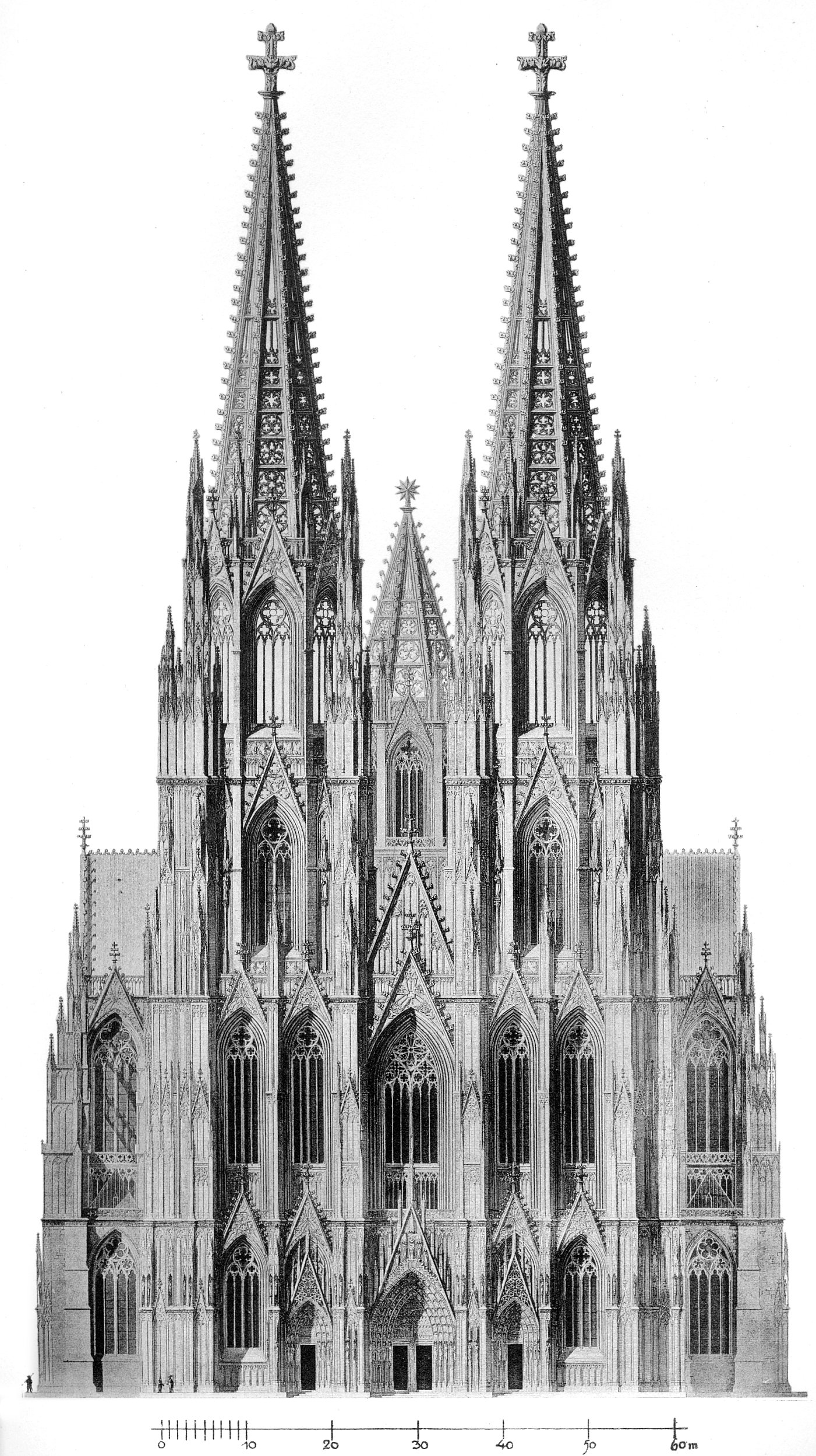 This is a scan of the historical document: Title: Der Dom zu Köln